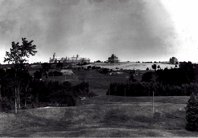 Shiloh, Maine, a communitarian religious sect founded by Frank W. Sandford (1862-1948)